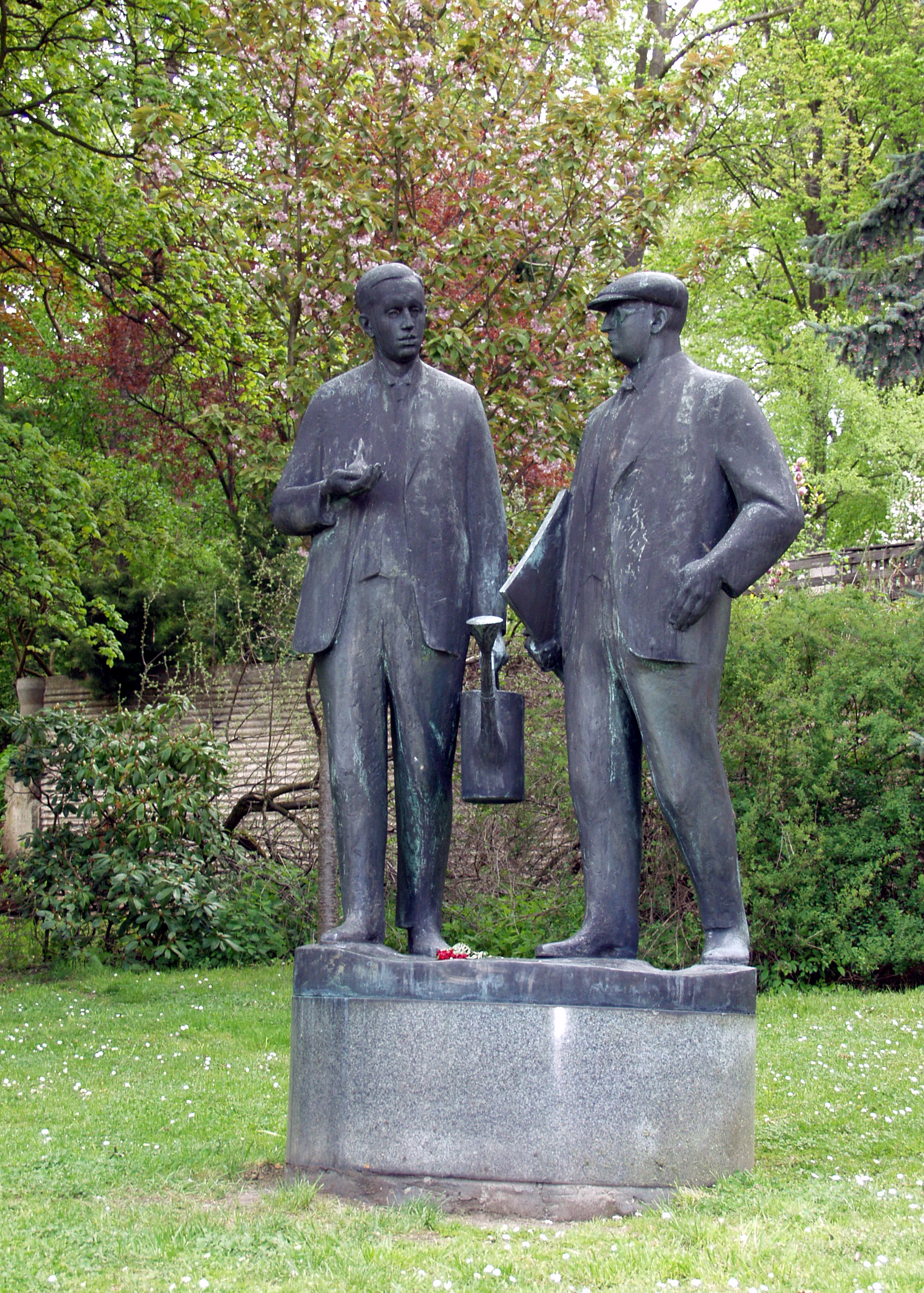 Statue of Karel Čapek and Josef Čapek. Karel Čapek was one of the most influential Czech writers of the 20th century, and a Nobel Prize nominee (1936). Josef Čapek was a Czech artist who was best known as a painter, but who was also noted as a writer and a poet.